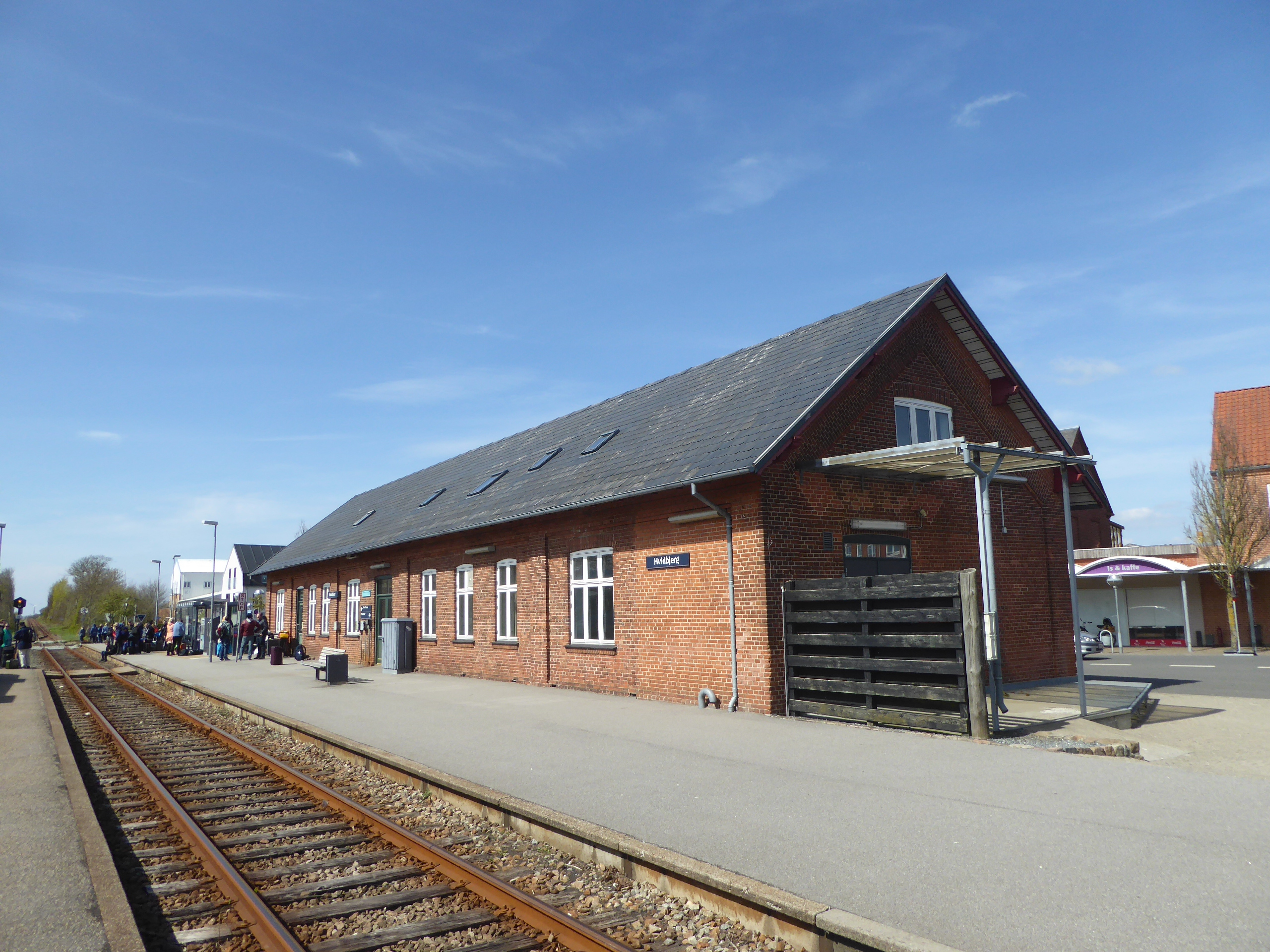 Hvidbjerg Station on Thybanen in Thyholm in Denmark.